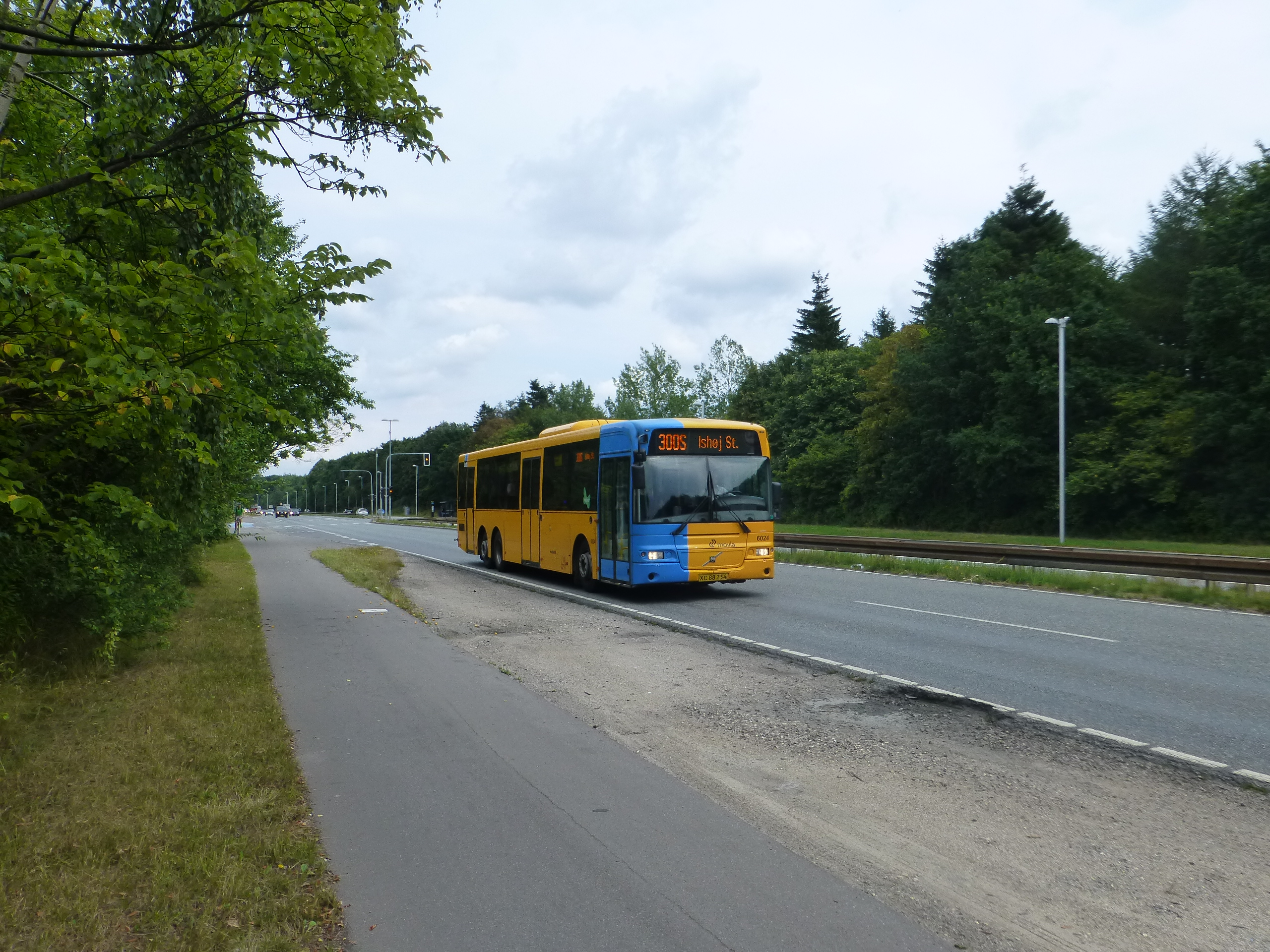 Movia bus line 300S on Nordre Ringvej, a part of Ring 3 around Copenhagen, at Ejby Industrivej.